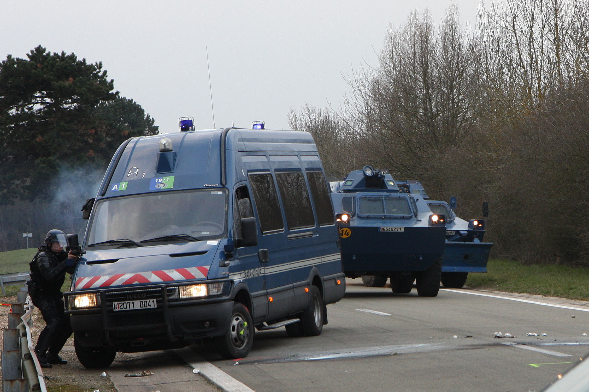 French Mobile Gendarmerie van and armoured vehicles